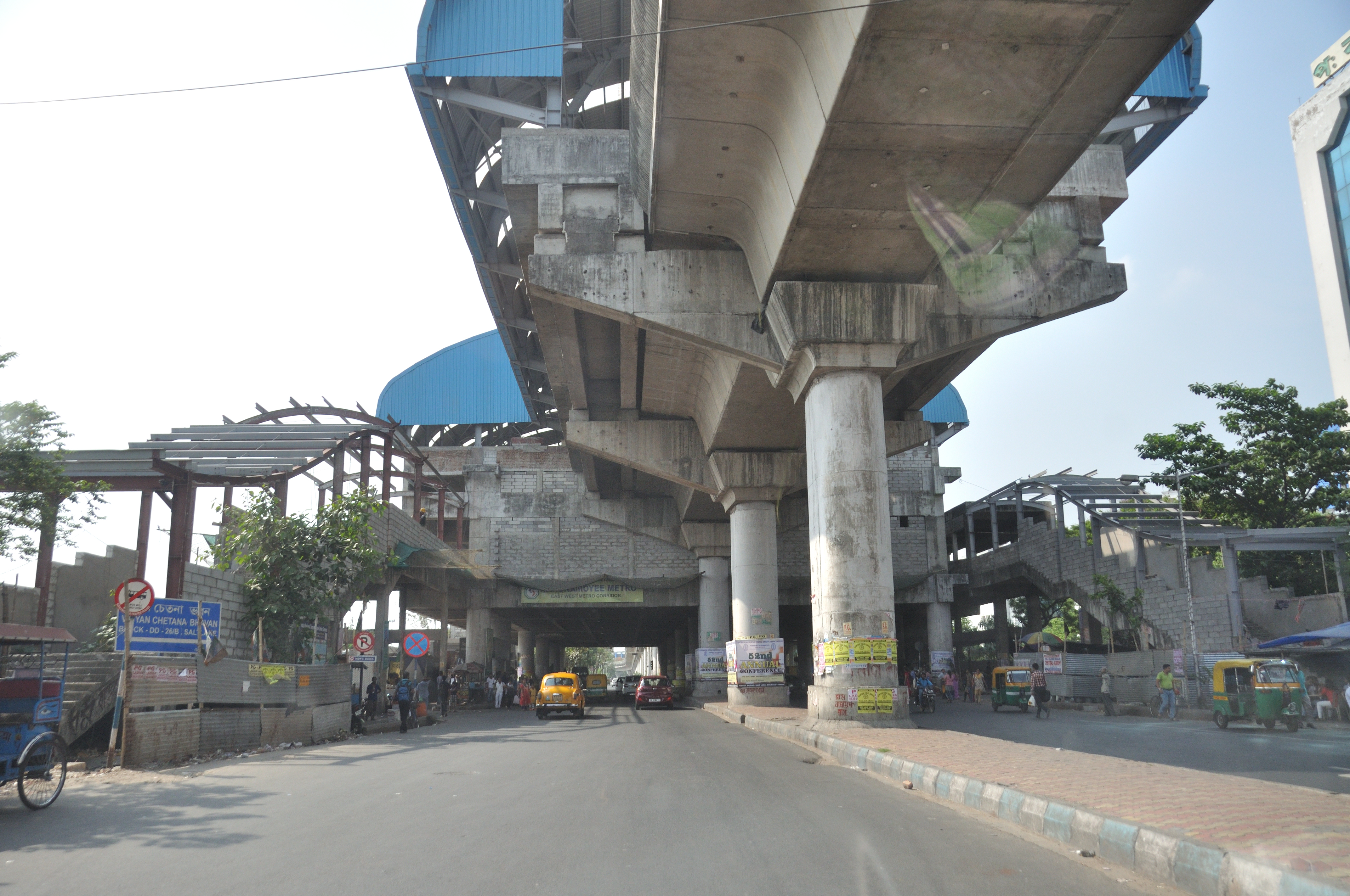 This photograph was taken in Kolkata.